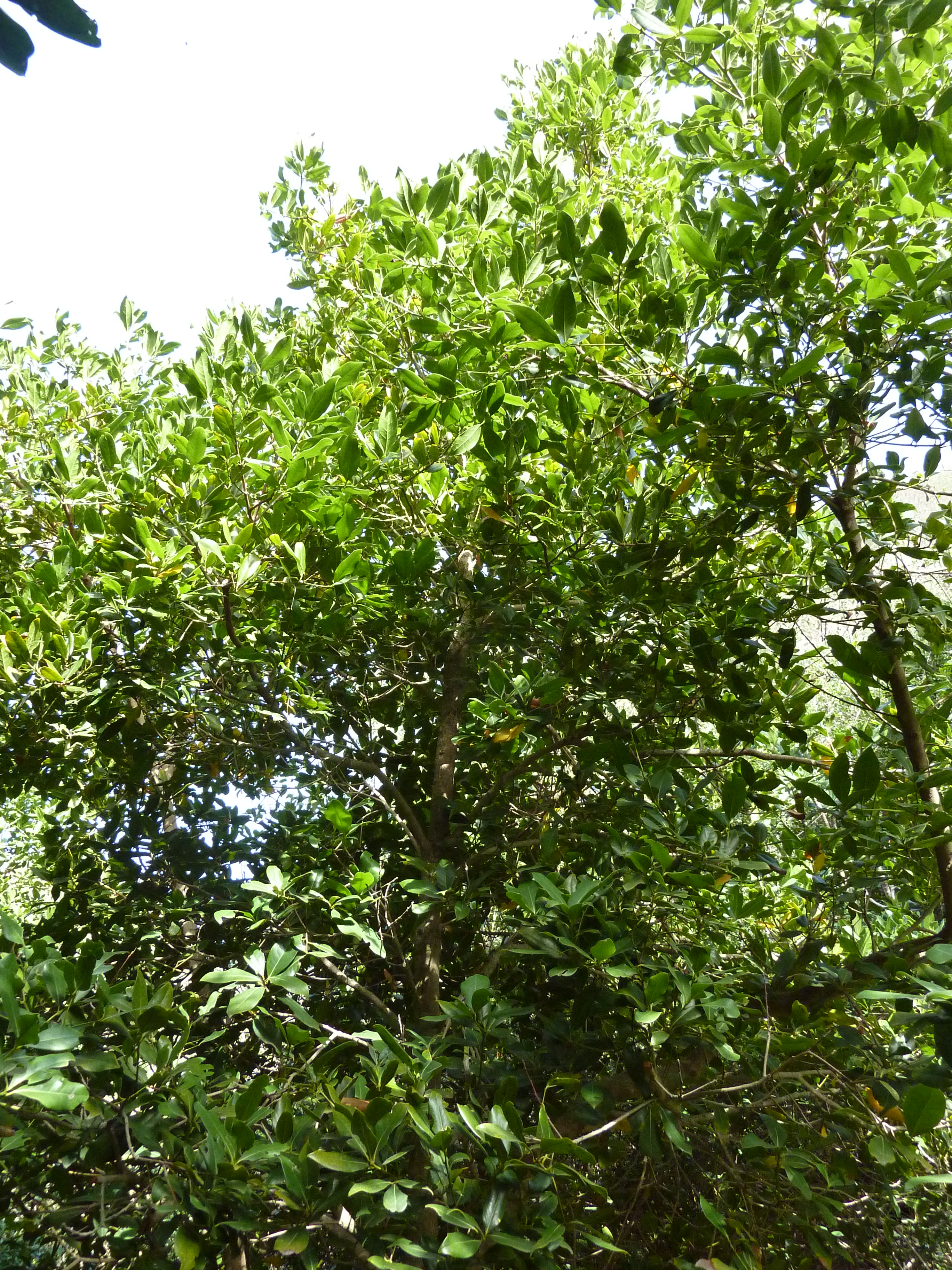 Apollonias barbujana subsp. barbujana in the Jardín Botánico Canario Viera y Clavijo.